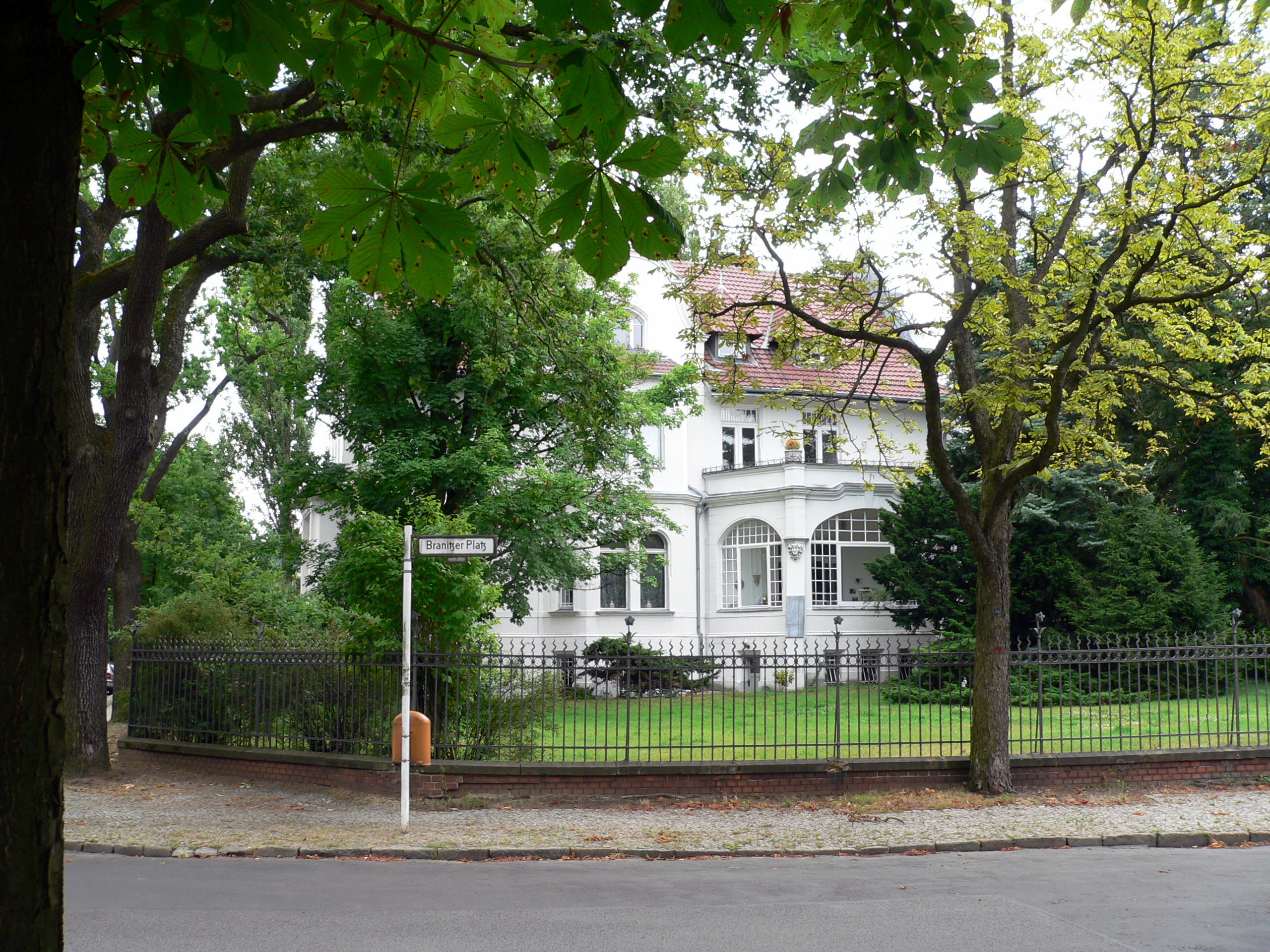 Berlin-Westend Branitzer Platz